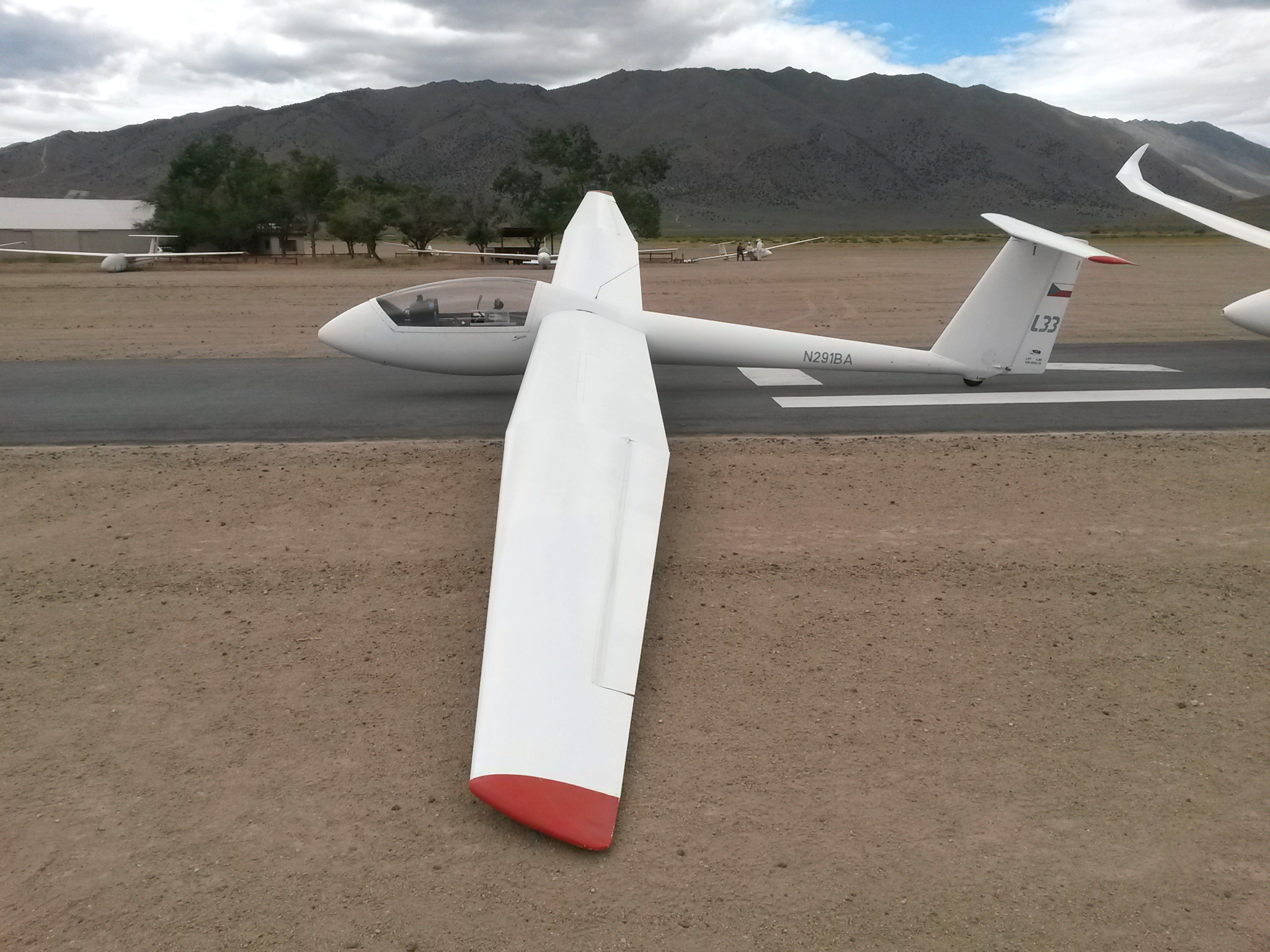 LET L-33 Solo single-seat glider aircraft ready for takeoff at Air Sailing Gliderport, Nevada